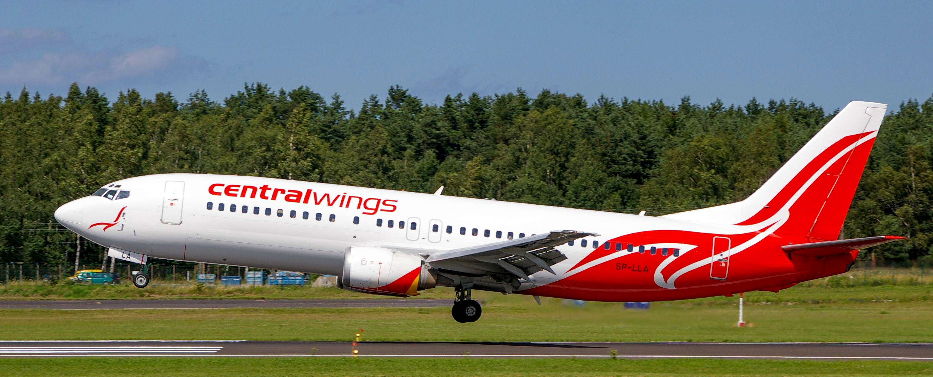 Centralwings' Boeing 737-400 landing in Gdańsk.